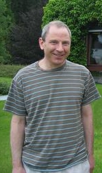 Picture of Oded Schramm